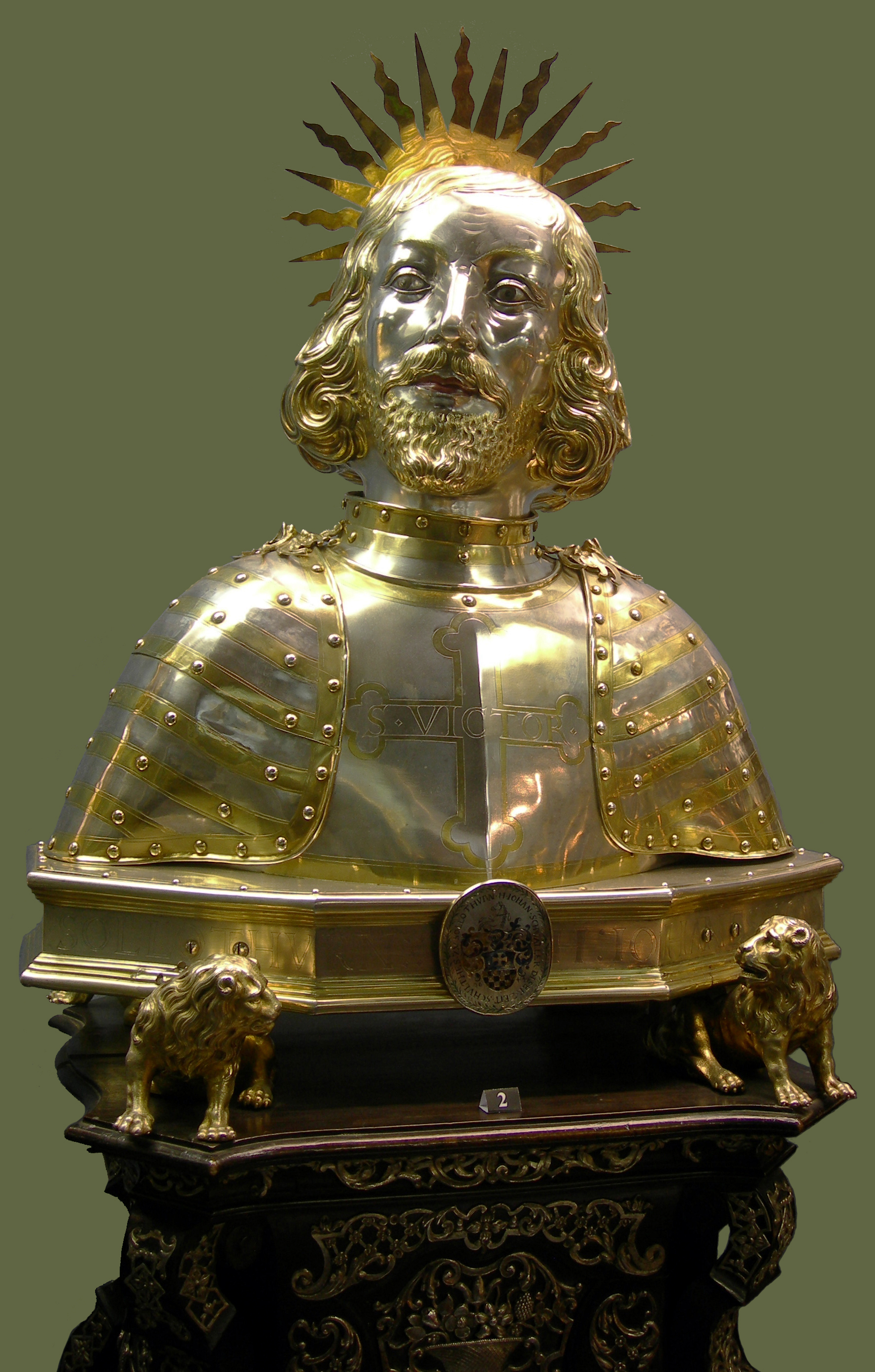 Reliquary of St. Victor of Solothurn, treasure of the St. Ursus Cathedral, Solothurn, Switzerland. The Reliquary was made by master Hans Jacob Bayr the younger in Augsburg, Germany, in 1644. It was an endowment of Johann Schwaller, mayor of Solothurn.